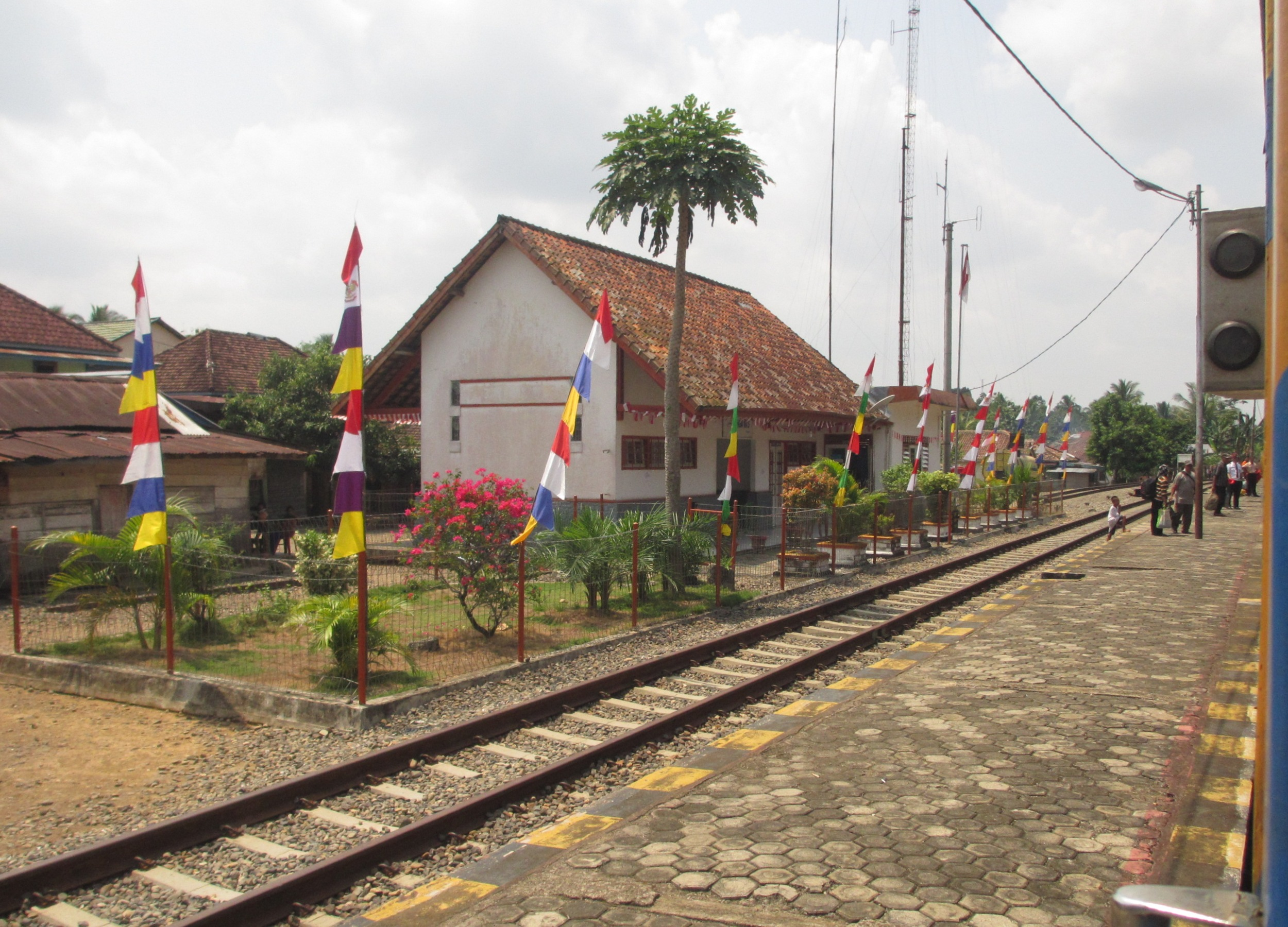 Bungamas Railway Station.